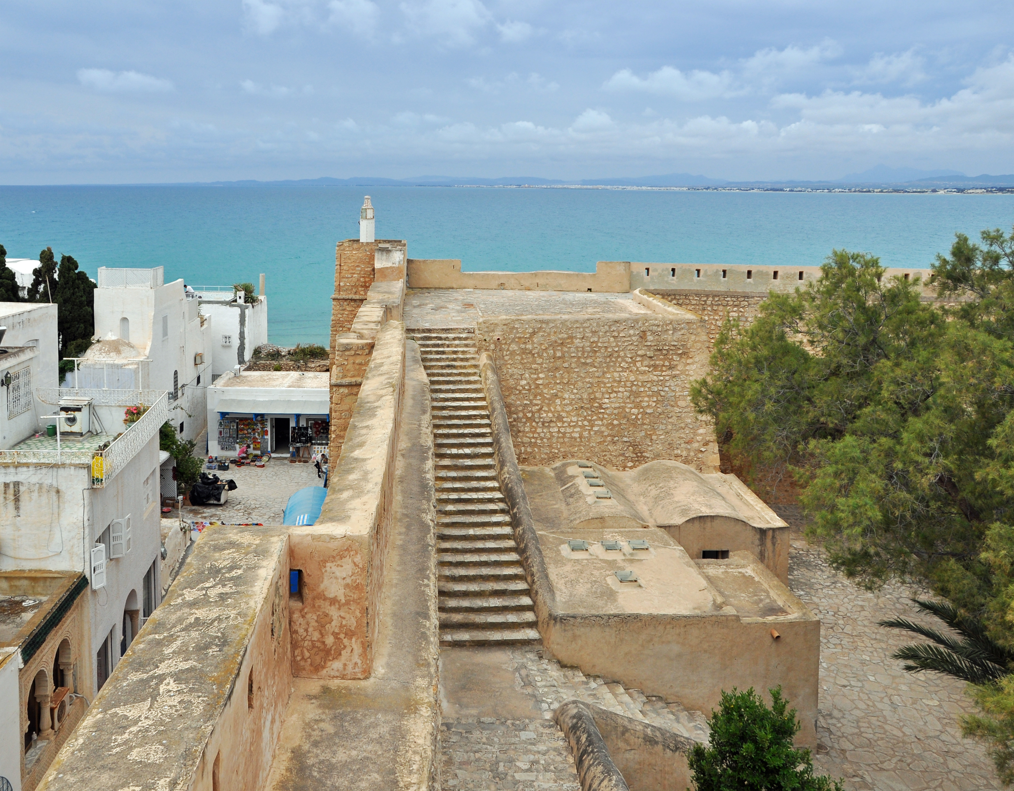 Hammamet (Tunisia): the SW part of the Kasba, with a small lighthouse on top